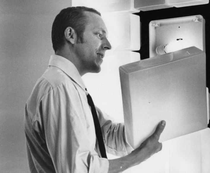 Finnish glass and lighting designer Valto Kokko (1933–2017) with Valomentti lighting elements introduced in 1966.